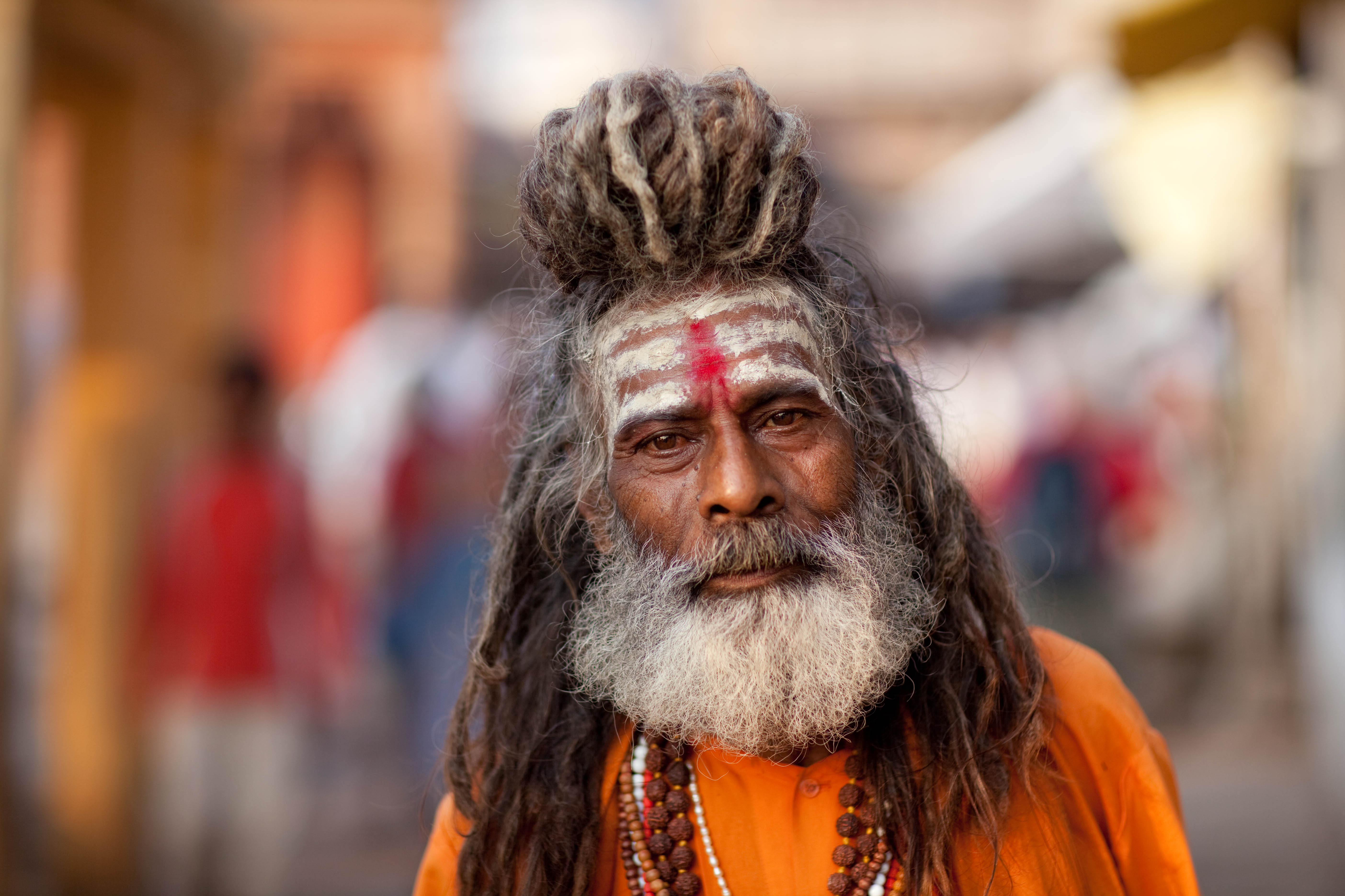 A Sadhu in Varanasi, India.